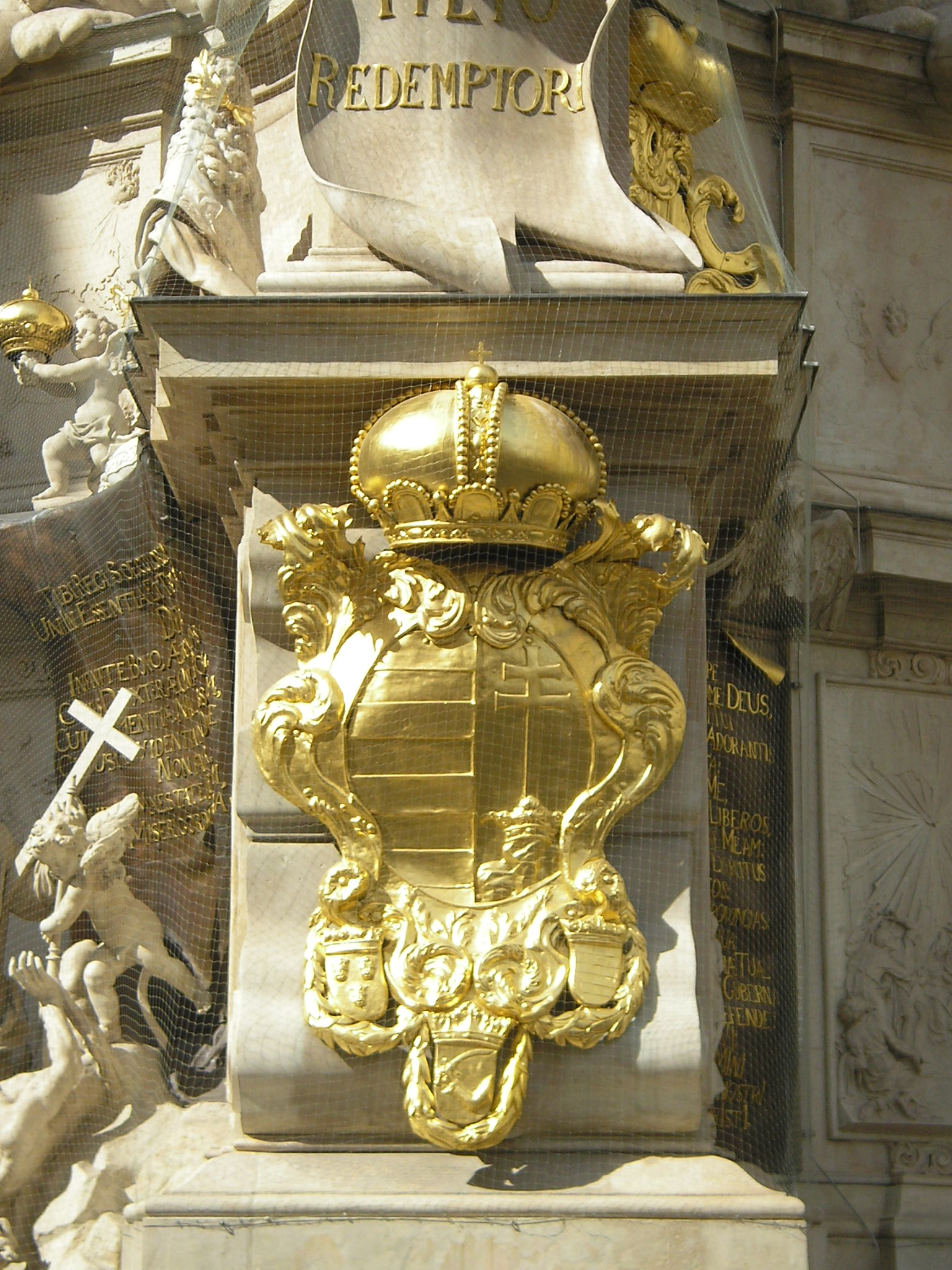 Detailed image of the Pestsäule (Plague column) with coat of arms of Hungary (?) and a crown, at the Graben street Vienna.